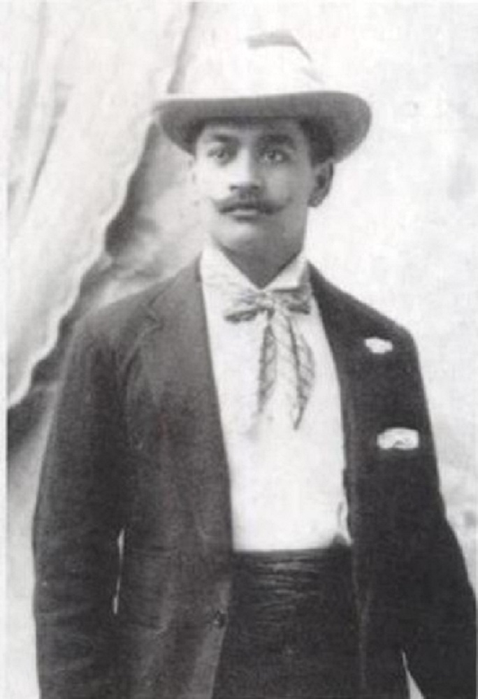 Prince David Kawananakoa probaby in 1889.